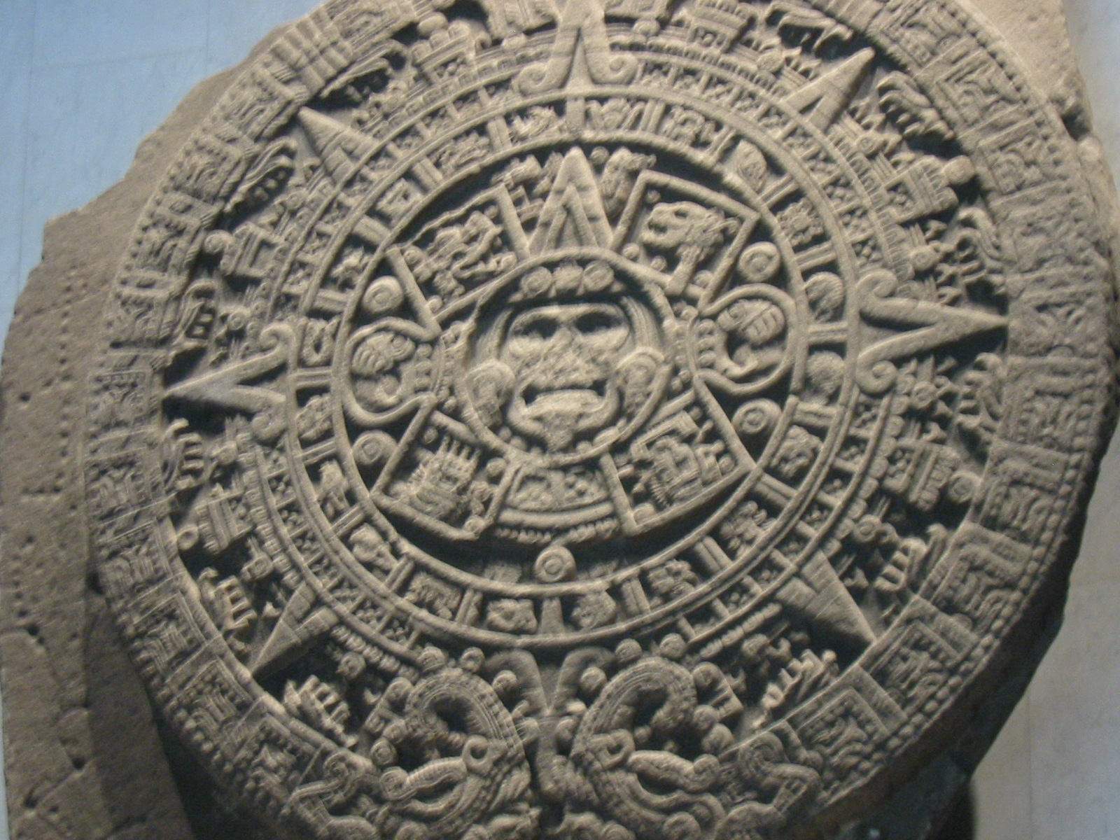 Sun stone on display at the National Museum of Anthropology in Mexico City